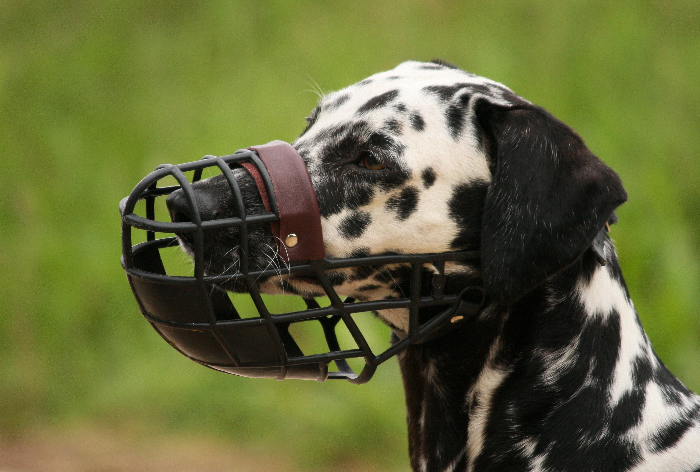 Juli 2012 Creative Commons Licence BY 2.0 Quellenangabe / Credit: Photo by Maja Dumat